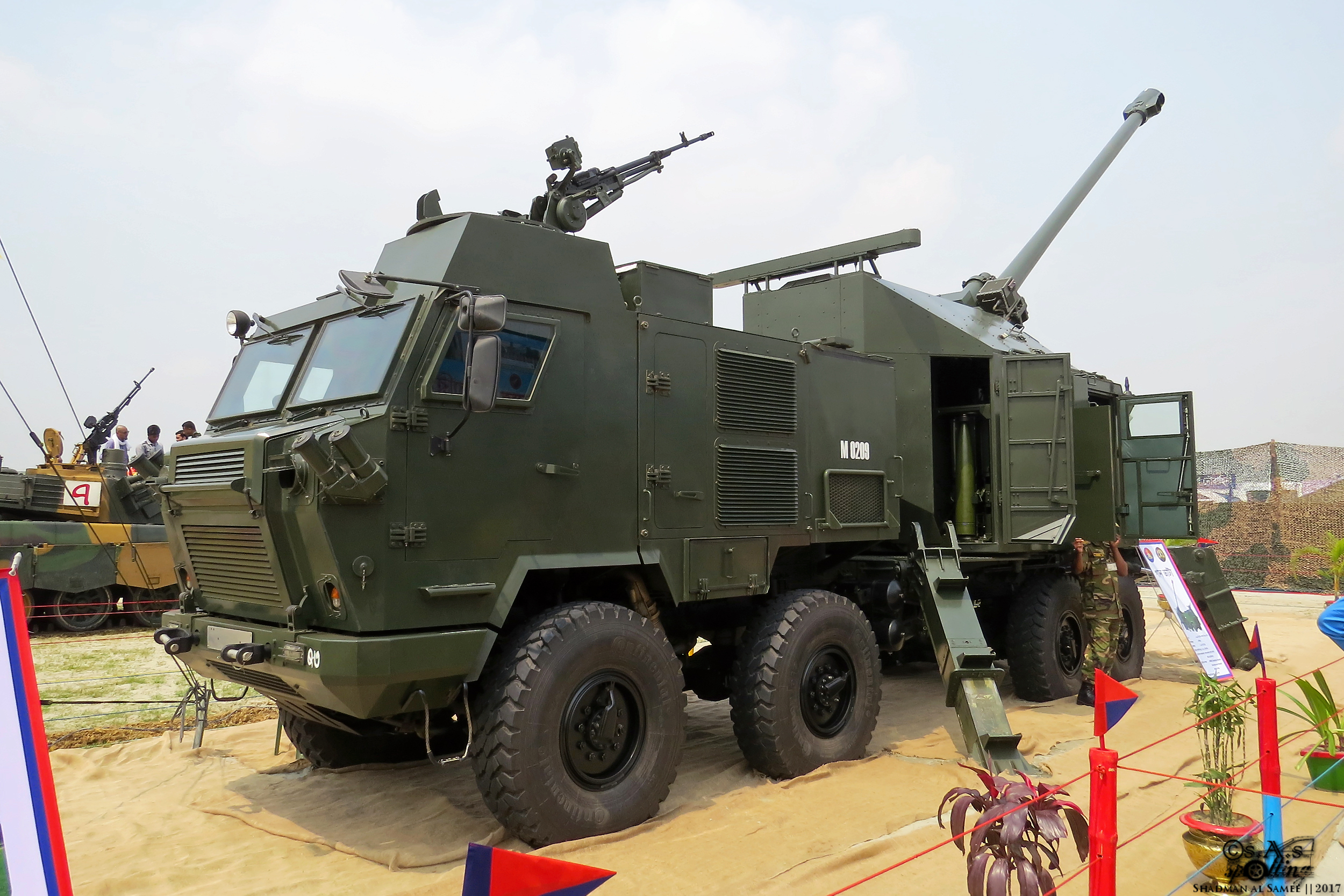 VGTJ/MHD 2017: Parabolic bombing :3